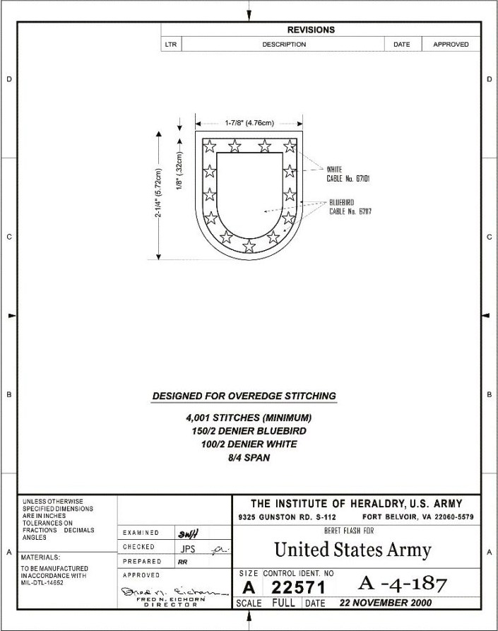 Image of the U.S. Army Institute of Heraldry's manufacturing instructions for the production of the Department of the Army Beret Flash